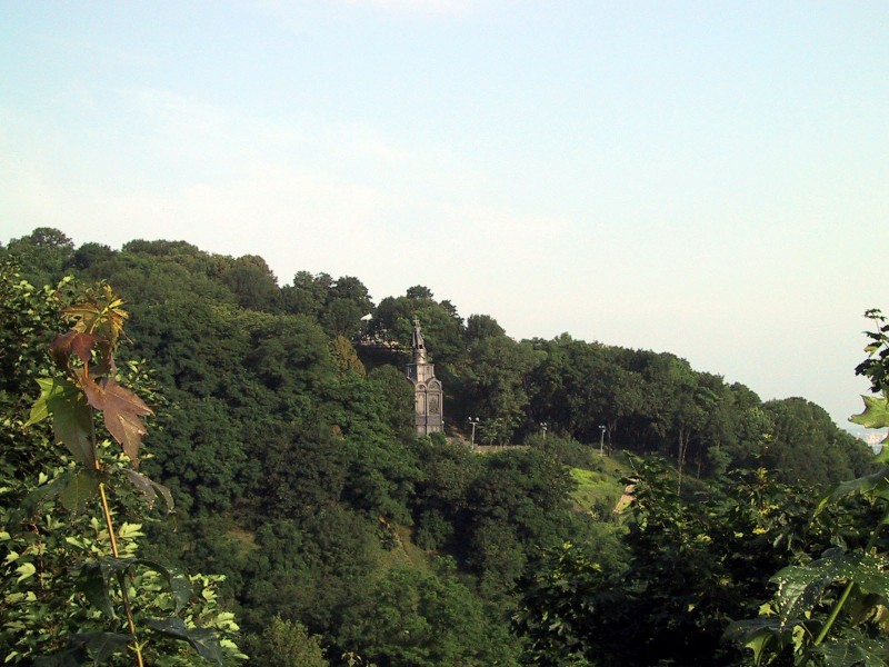 Statue of St. Volodymyr Kiev, Ukraine